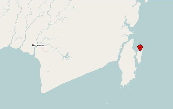 Map showing the location of Sebuku Island, south-east of Borneo